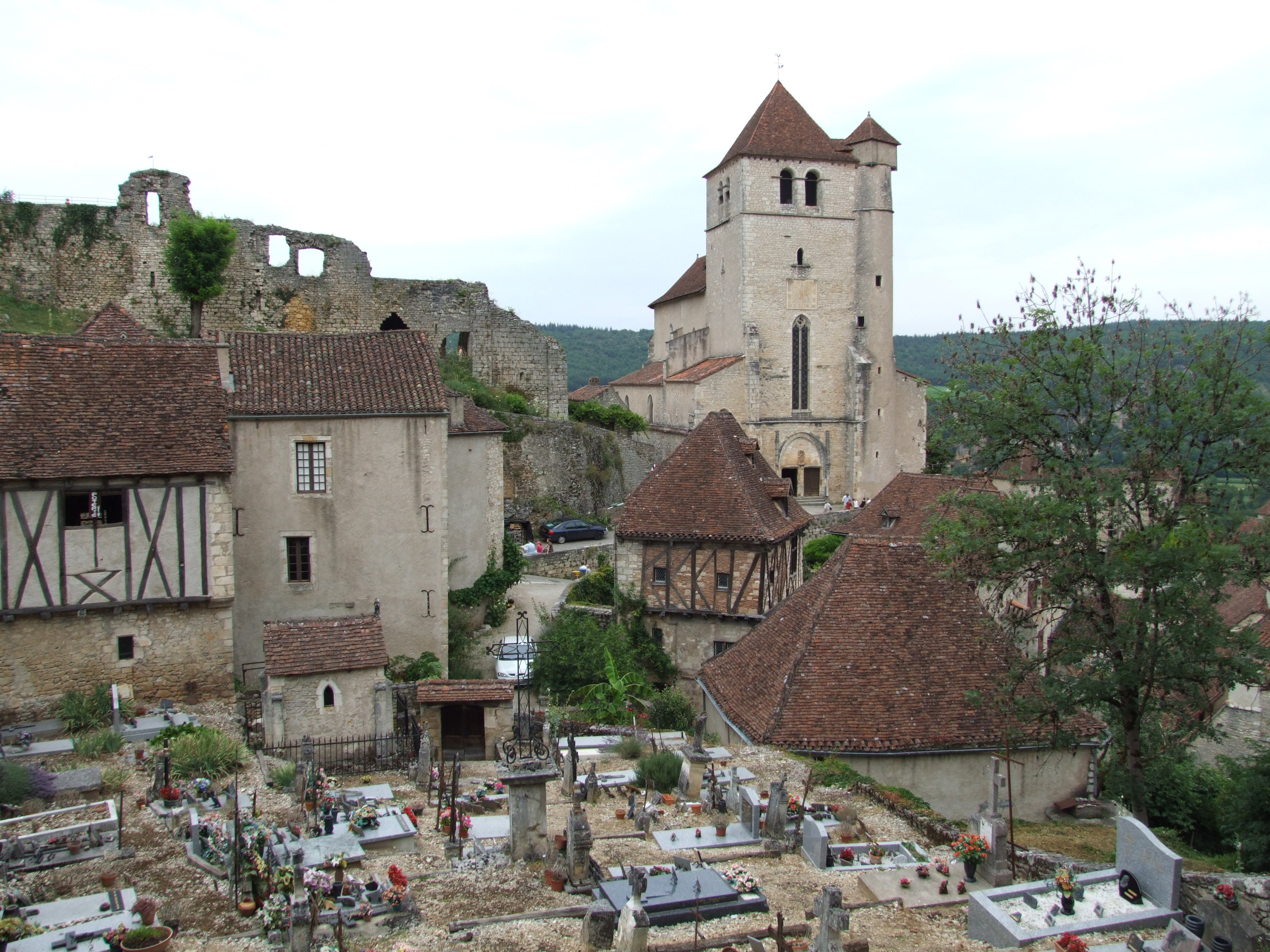 Saint-Cirq-Lapopie, Lot, FRANCE